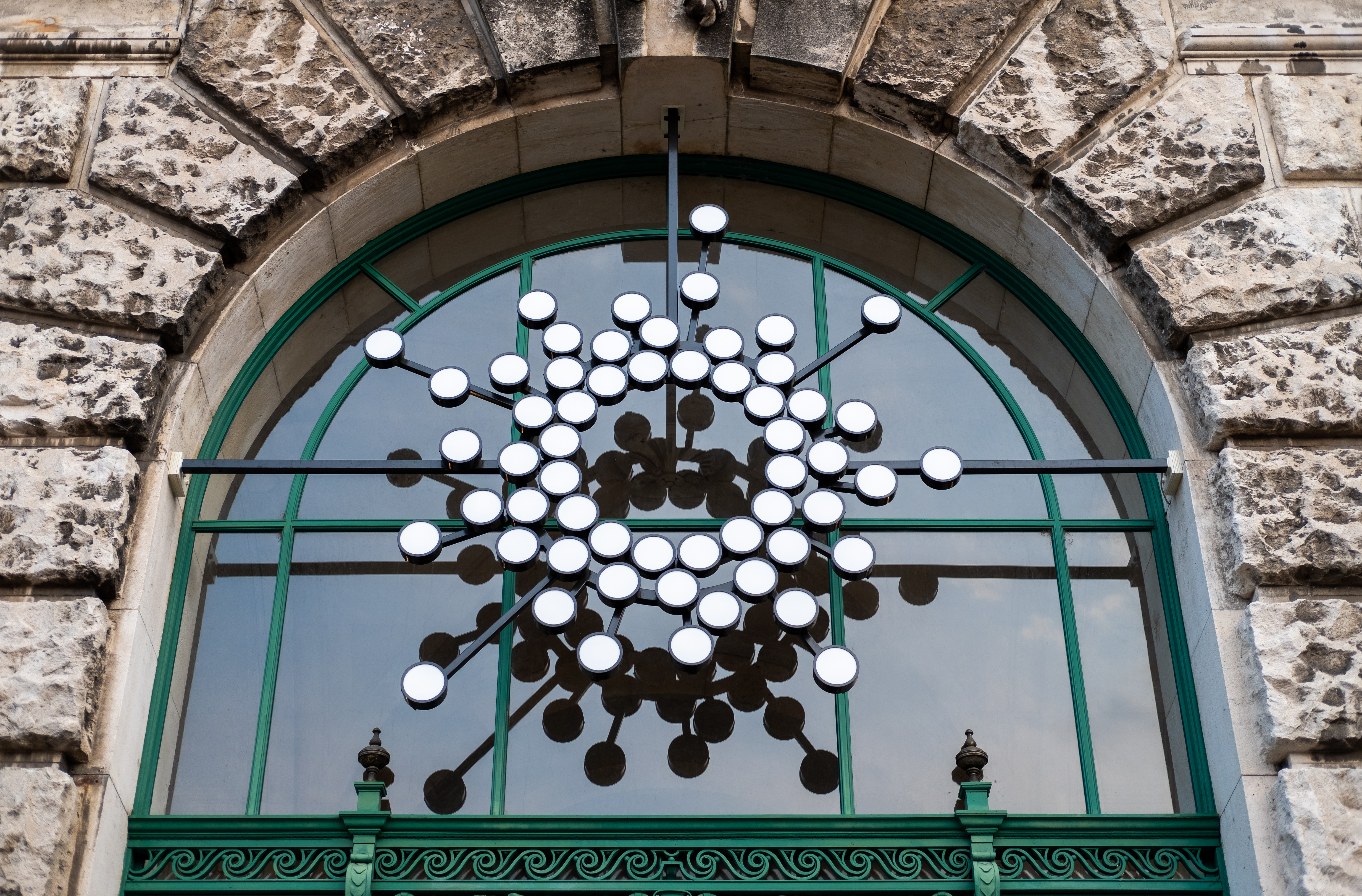 Museum of Ethnology façade, logo detail (Vienna, Austria) Cultural property Weltmuseum Wien, Innere Stadt, Vienna, AUT Q686488, VIAF ID: 195634250 Cultural heritage database in Austria ObjektID: 50462